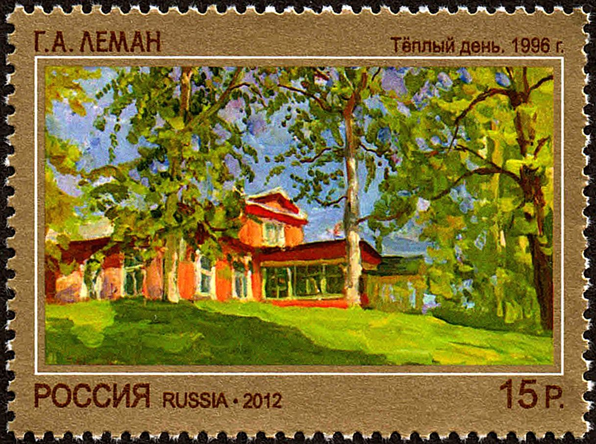 The contemporary art of Russia (the ongoing series, issue II).The Warm Day by Georgy Leman. 1996. Georgy Alexandrovich Leman (born 1939) is a Russian painter, a People's Artist of the Russian Federation, a secretary of the Russian Union of Artists. Georgy Leman is known for his numerous landscape paintings.The stamp of Russia, 15.00 Rubles, 30 June 2012, PTC Marka Catalogue No 1615, Michel No 1848. Coated paper, varnish coating, bronze paste. Offset printing. Perforation: comb 12:11¼. Size of the stamp: 50×37 mm. Print run: 240,000.